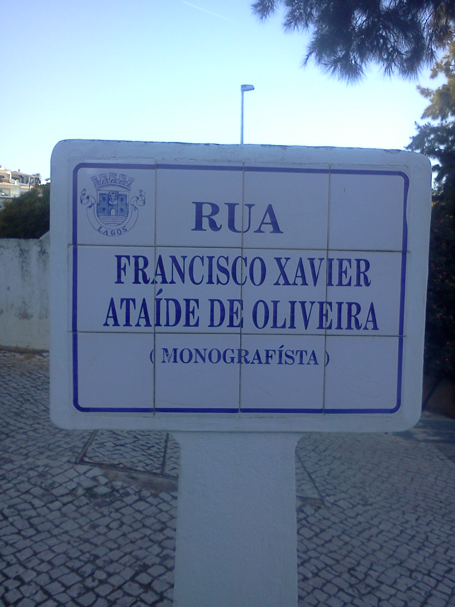 Street sign of Rua Francisco Xavier Ataide de Oliveira, in the city of Lagos, in southern Portugal.